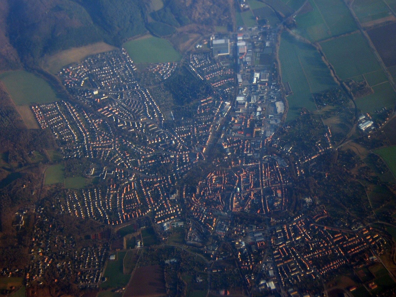 Aerial view of Einbeck, Lower Saxony, Germany